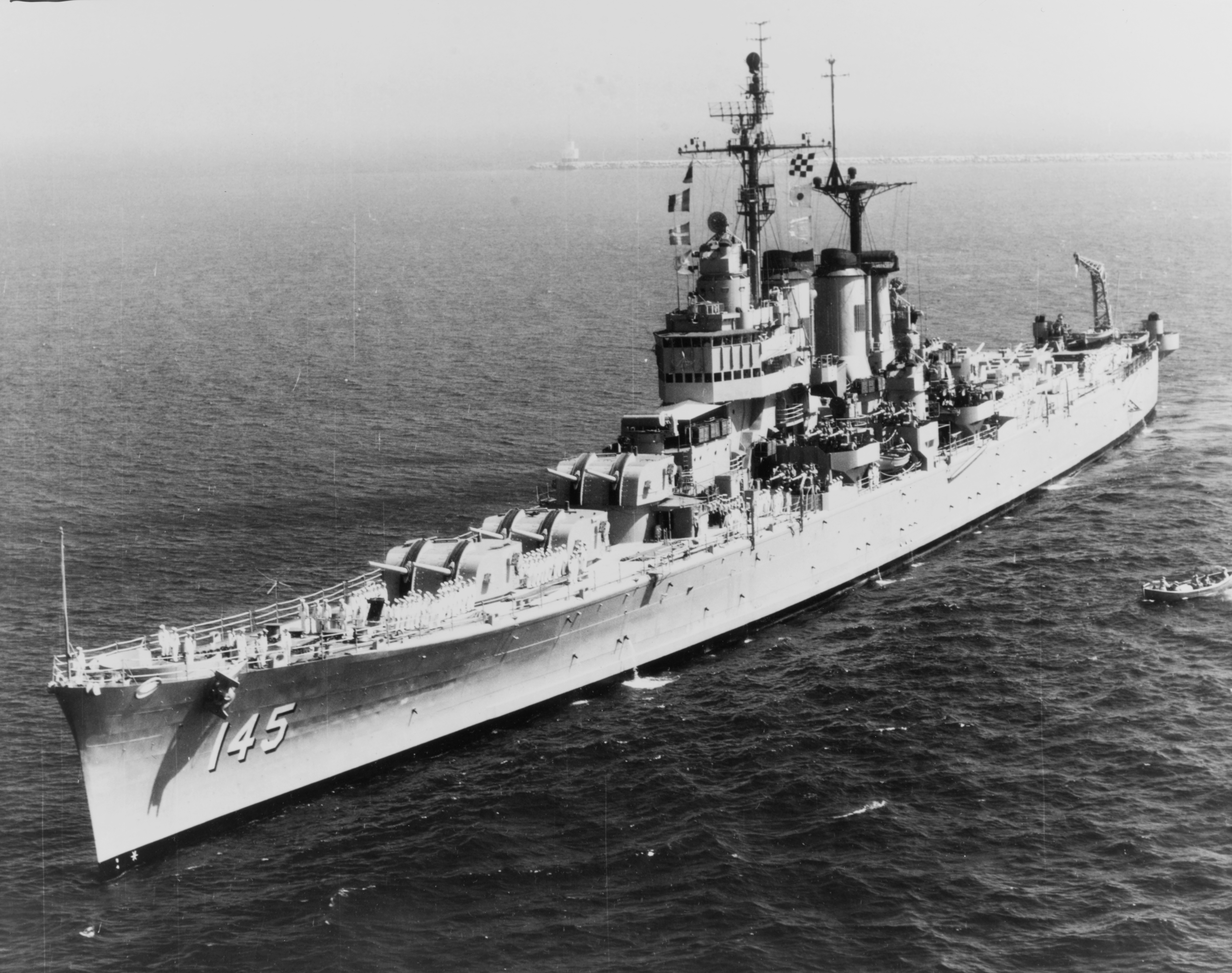 The U.S. Navy light cruiser USS Roanoke (CL-145) underway at slow speed, circa the early 1950s. Note the ship's crew at quarters, her call sign "NIQE" flying at the port yardarm, a motor whaleboat off her port side amidships and the lighthouse on the tip of the jetty in the background.